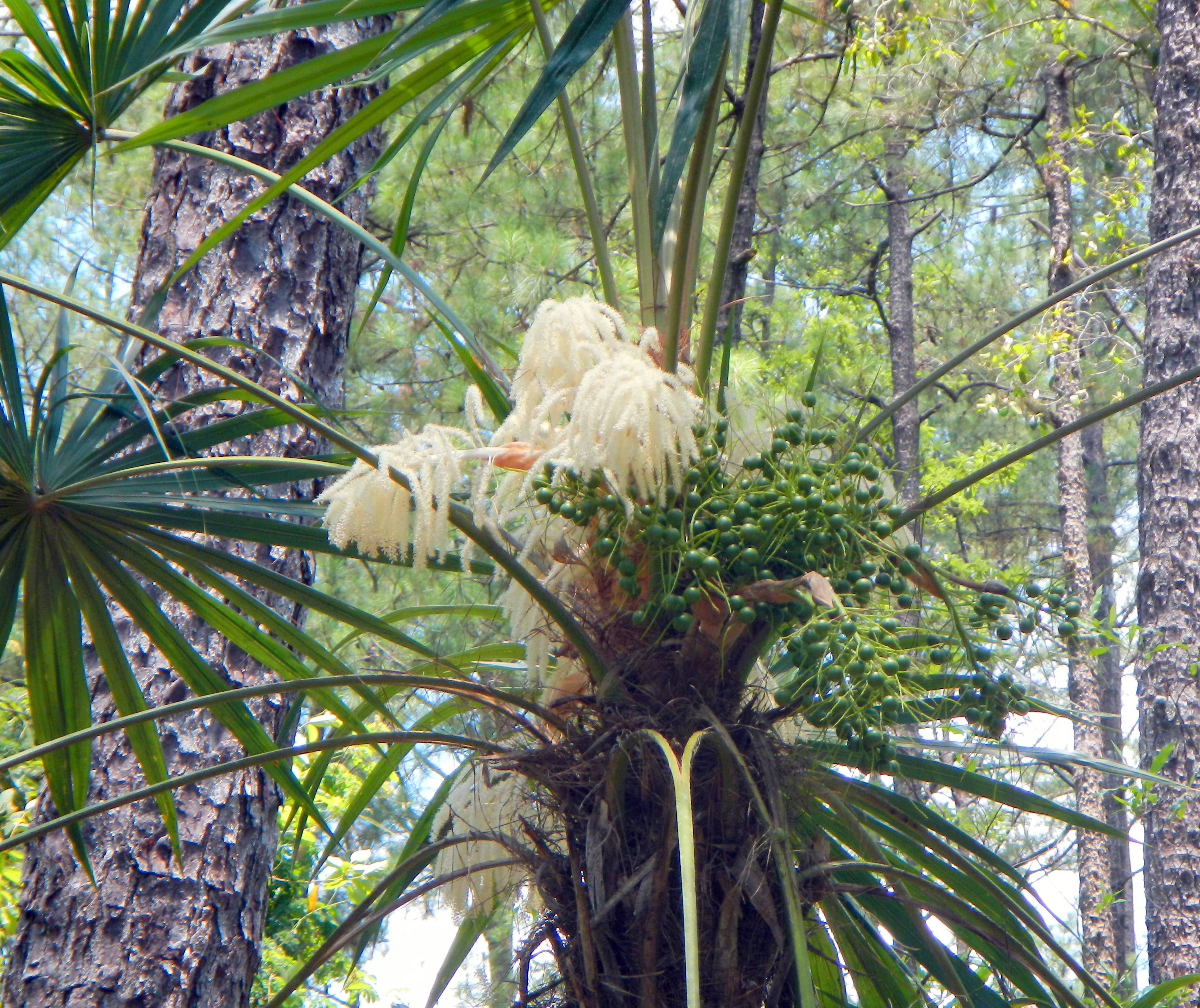 Schippia concolor palm flower CROP